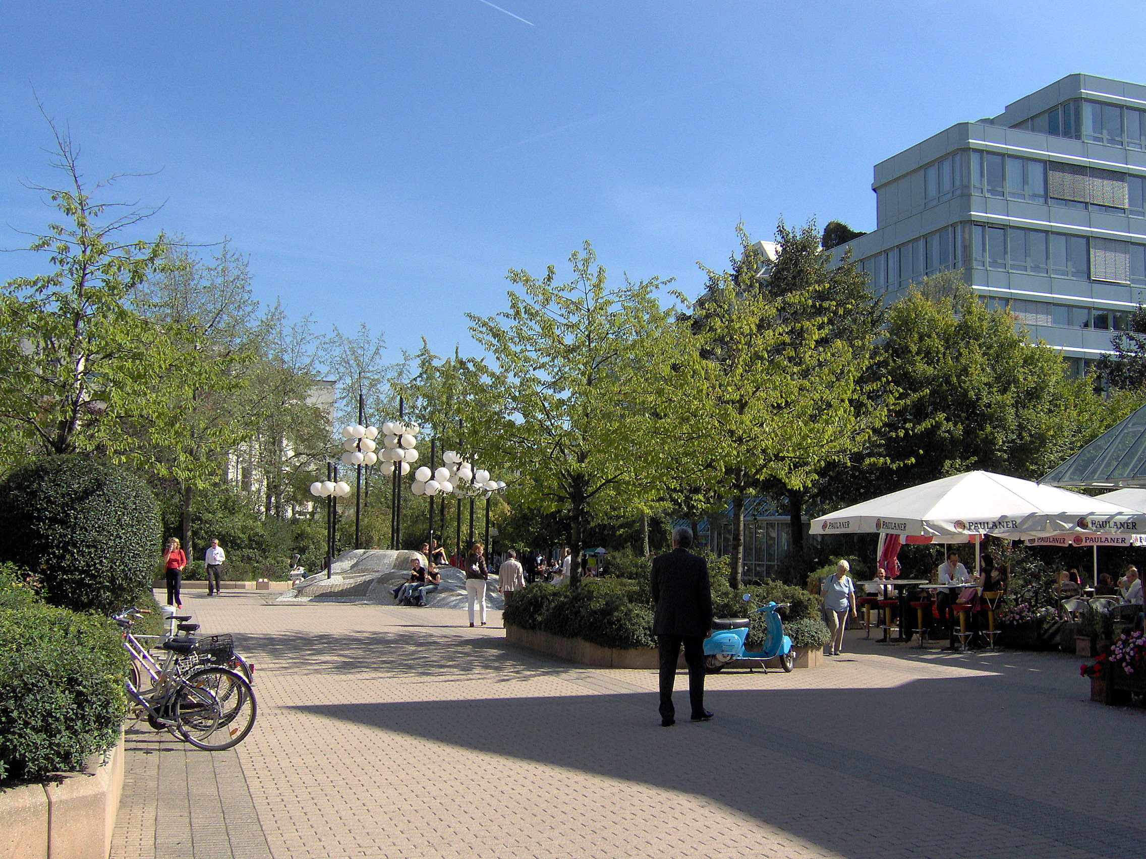 Rosenkavalierplatz at the Arabellapark in Munich